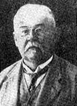 Gyula Sebestyén, Hungarian folklorist and historian.